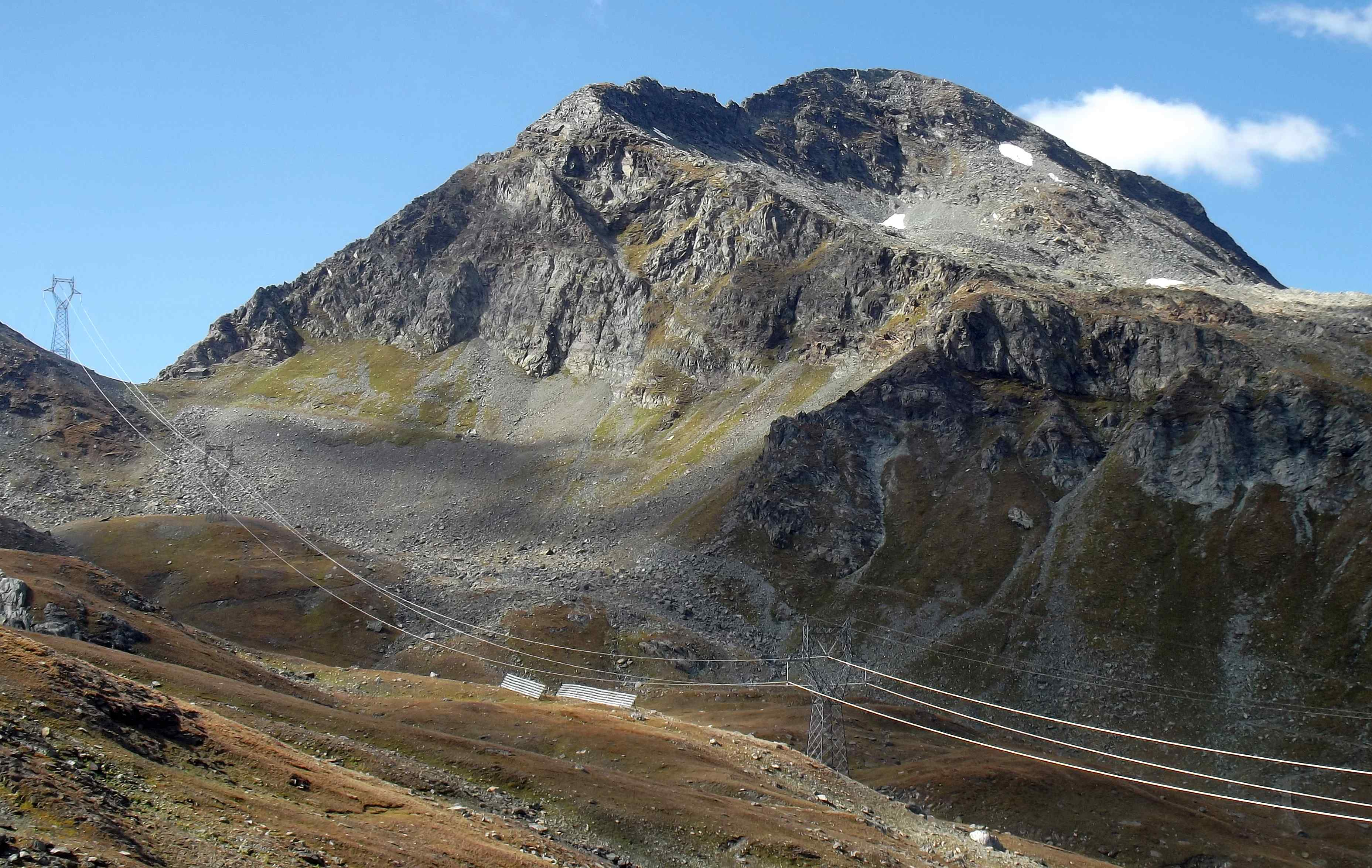 Tour-de-Ponton and Col Fenêtre seen from Champorcher Valley (Aosta Valley, Italy)